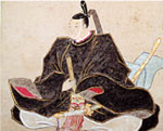 Niwa Takayasu, lord of the Nihonmatsu domain.